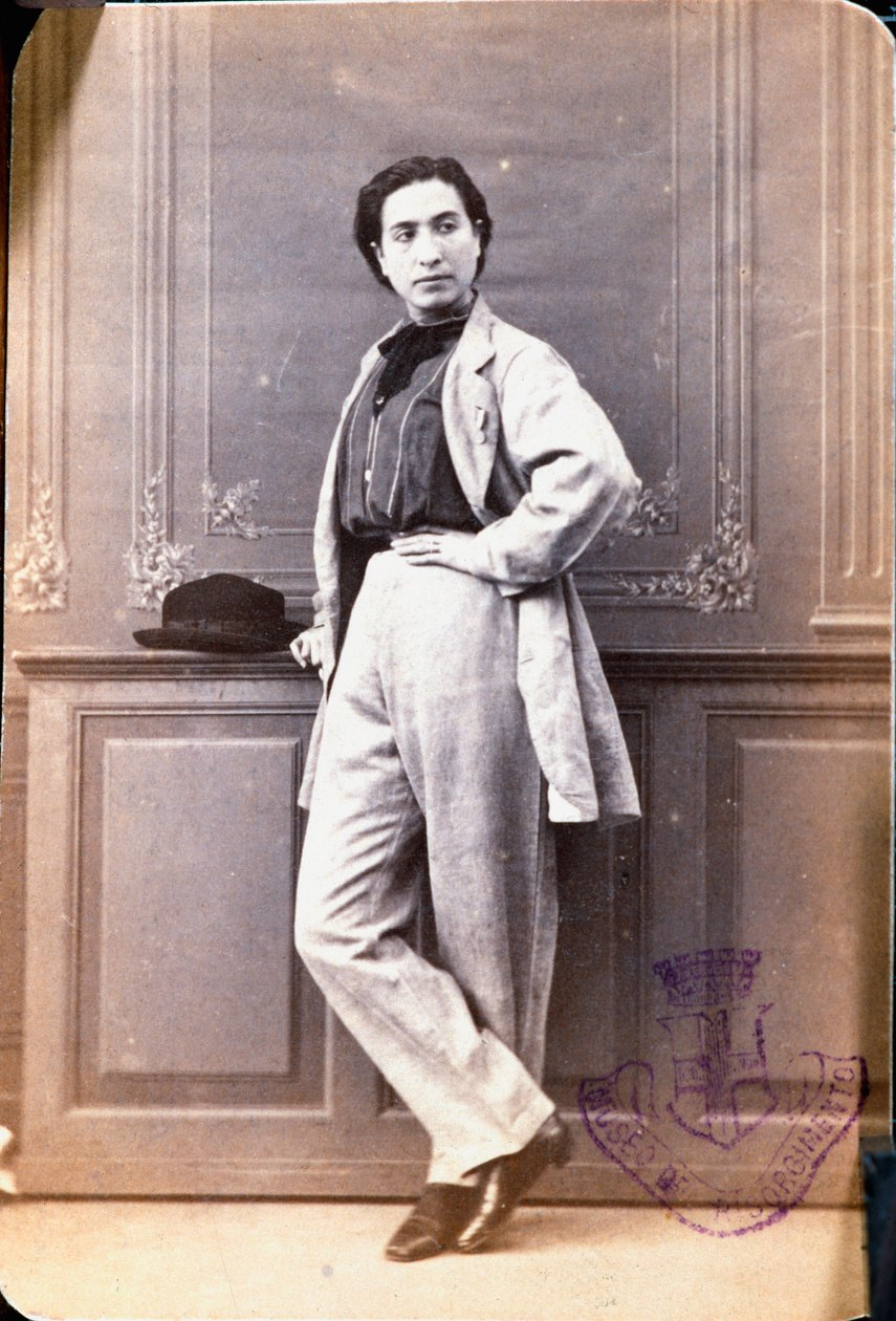 A rare photo of Anita Garibaldi dressed as a man.